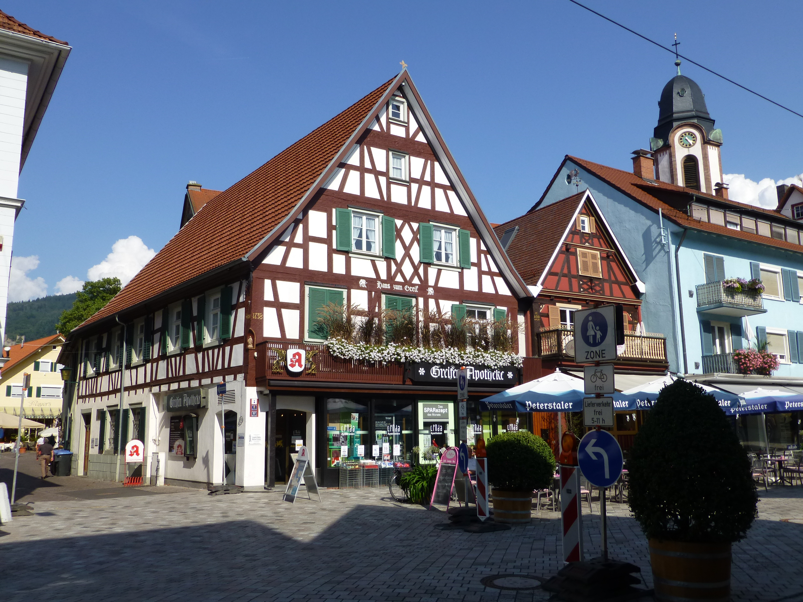 Place in Oberkirch (Baden).